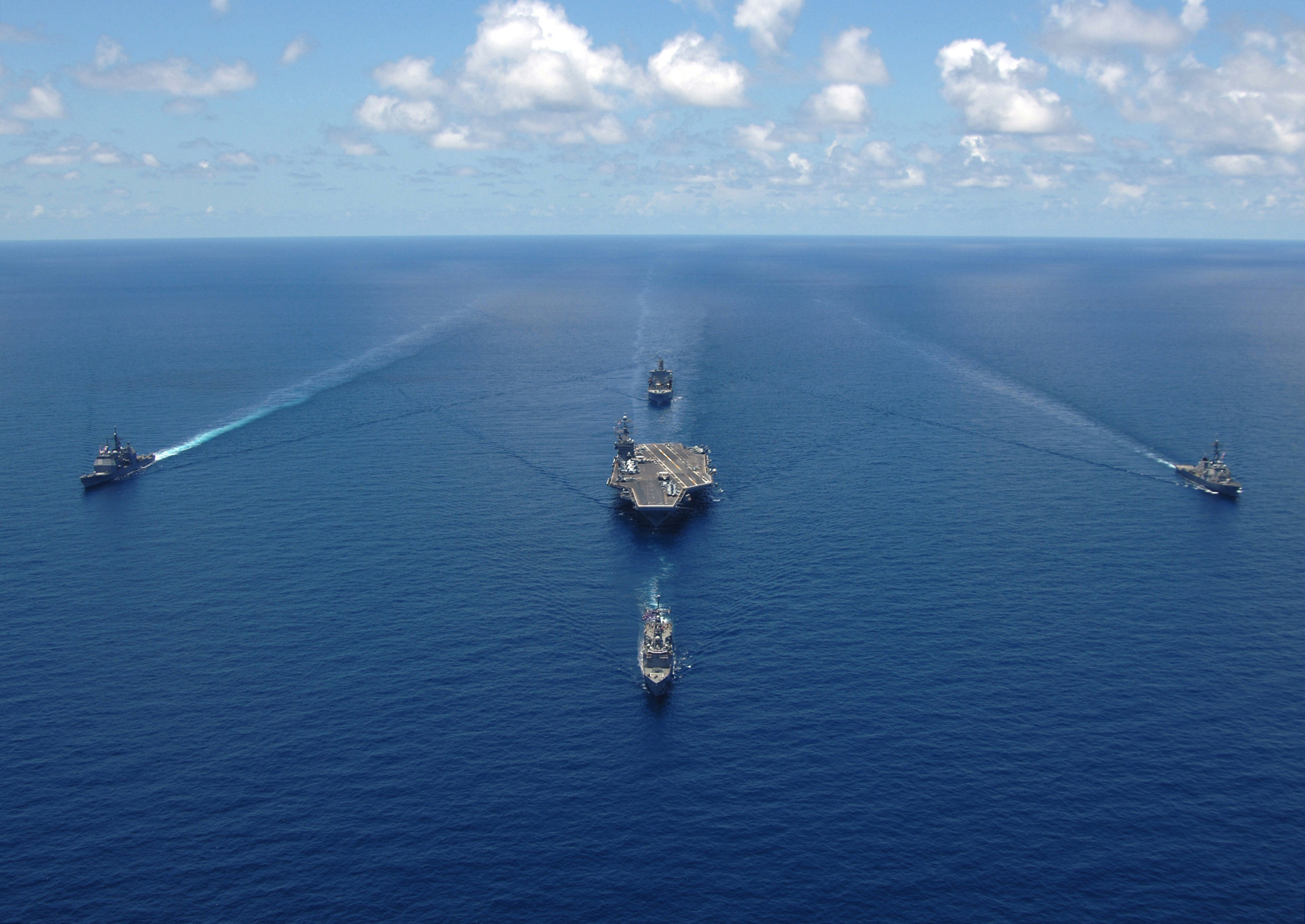 Caribbean Sea (April 29, 2006) – Ships assigned to the George Washington Carrier Strike group sail in formation during a strike group photo exercise. The George Washington Carrier Strike group is currently participating in Partnership of the Americas, a maritime training and readiness deployment of the U.S. Naval Forces with Caribbean and Latin American countries in support of the U.S. Southern Command (SOUTHCOM) objectives for enhanced security.